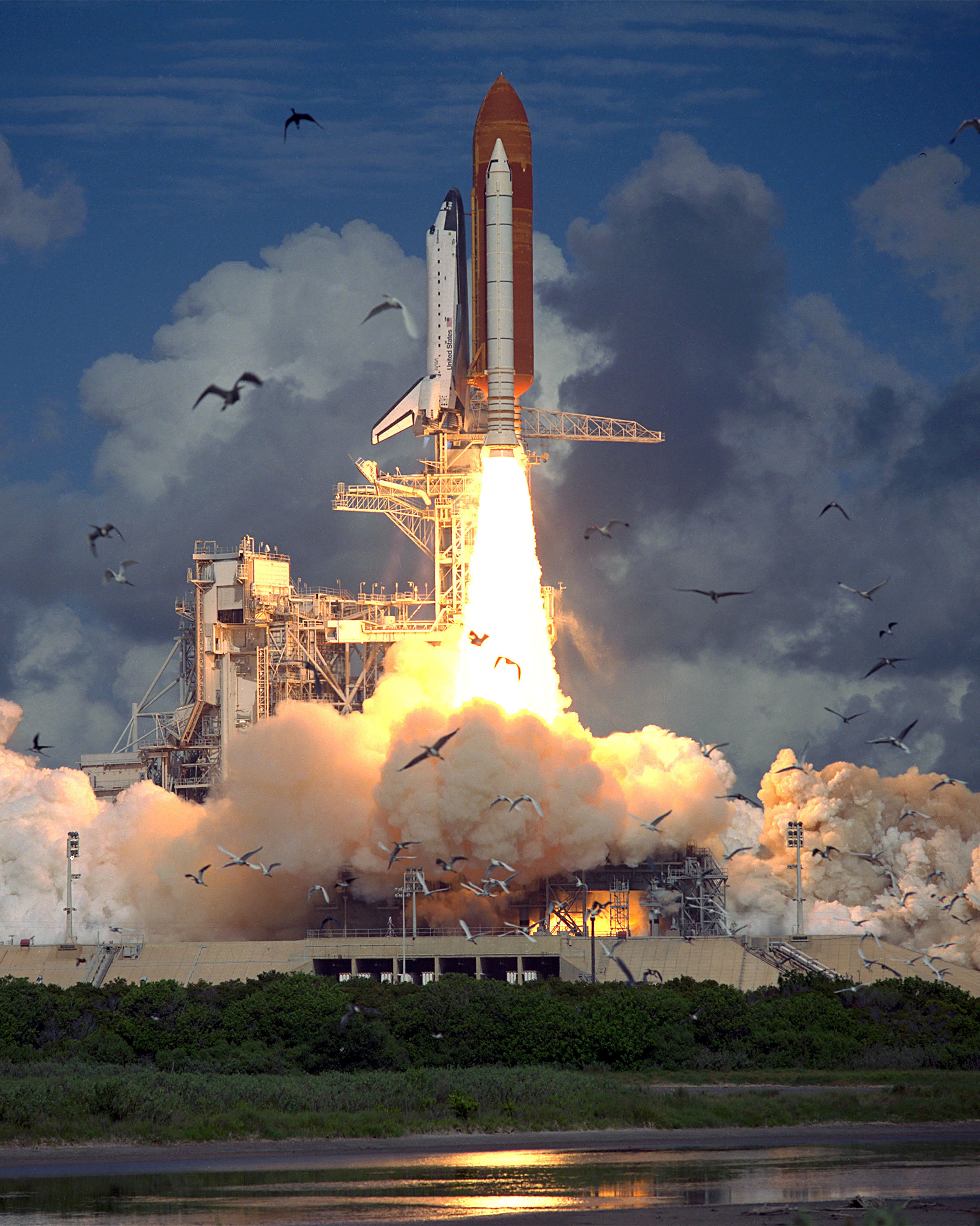 Launch of Endeavour on STS-57.